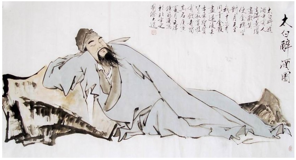 This image has been used under creative commons. I took a photo of this from a painting that is 150 years old at the Gu Lang Yu museum , Xiamen, Fujian.